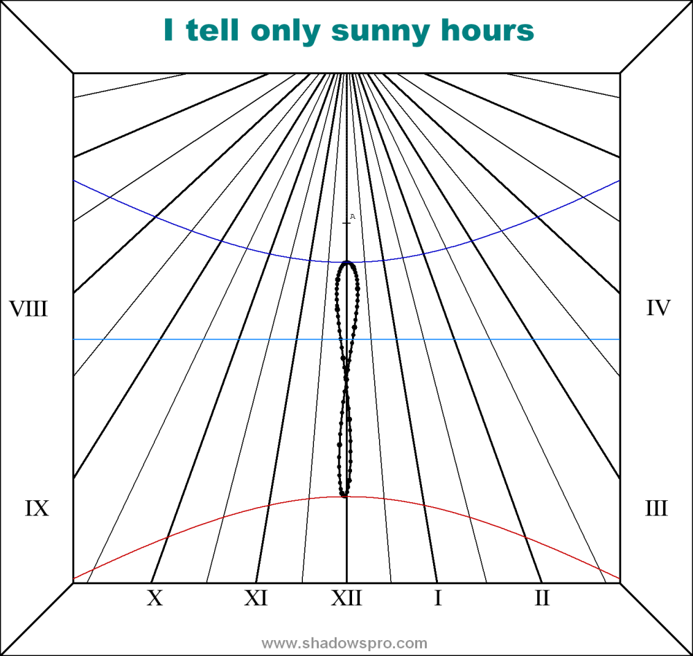 vertical sundial designed for the London latitude (51°30' N), drawn by the Shadows freeware